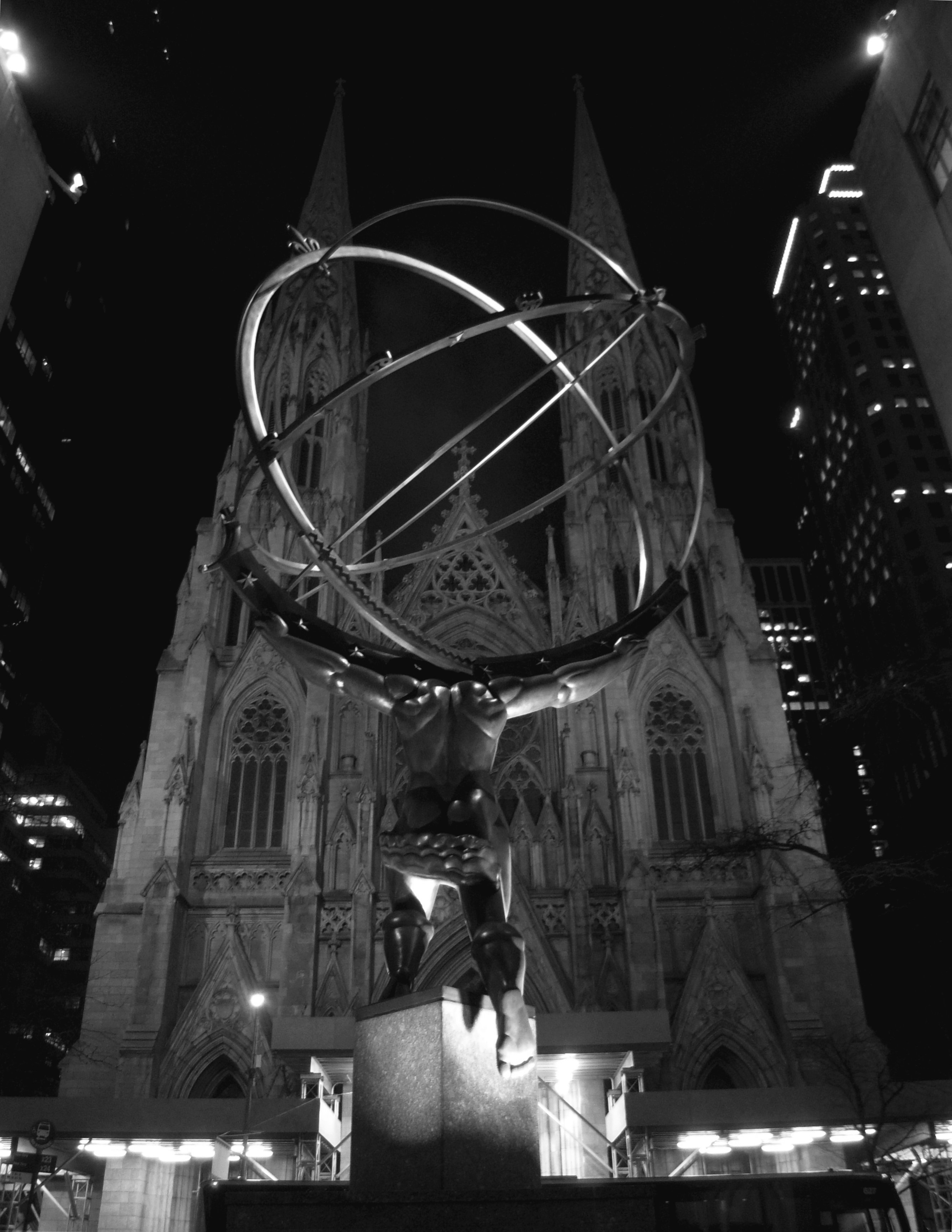 The statue of Atlas (located at Rockefeller Center in New York City) in front of Saint Patrick's Cathedral.